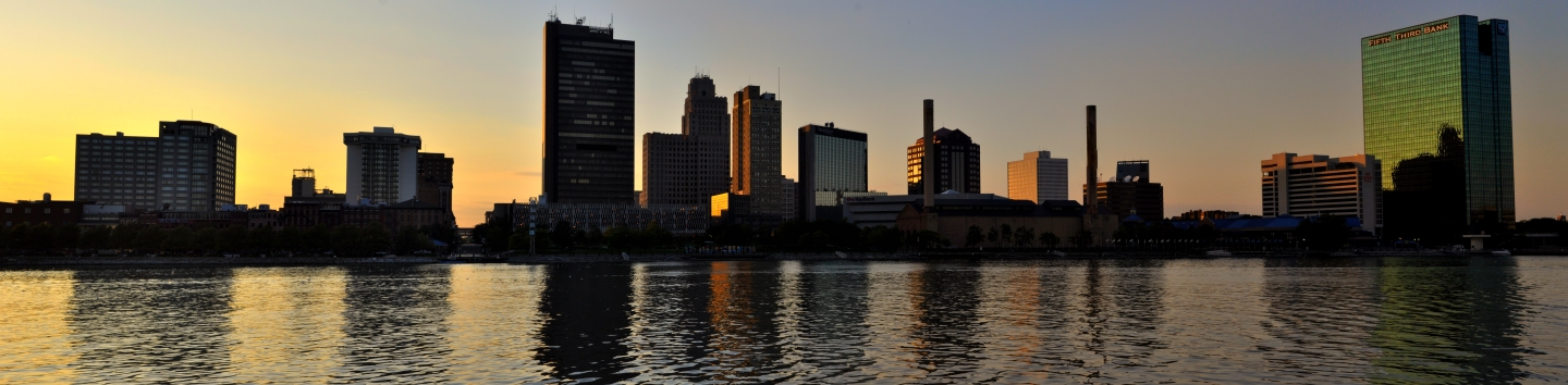 Panoramic skyline of Toledo, Ohio at sunset.